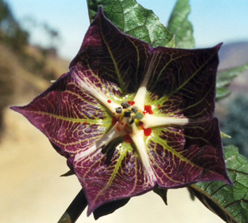 Flower of Jaltomata weberbaueri. Radial corolla thickenings, extending from the androecium to midway between the petals, are conspicuous on this species because the thickenings are lighter in color than the rest of the corolla tissue. The orange-red juice at the base of the flower is nectar. Collection Mione, Leiva G. and Yacher 725. Collected in Peru, Department Ancash at 3793 m elevation.